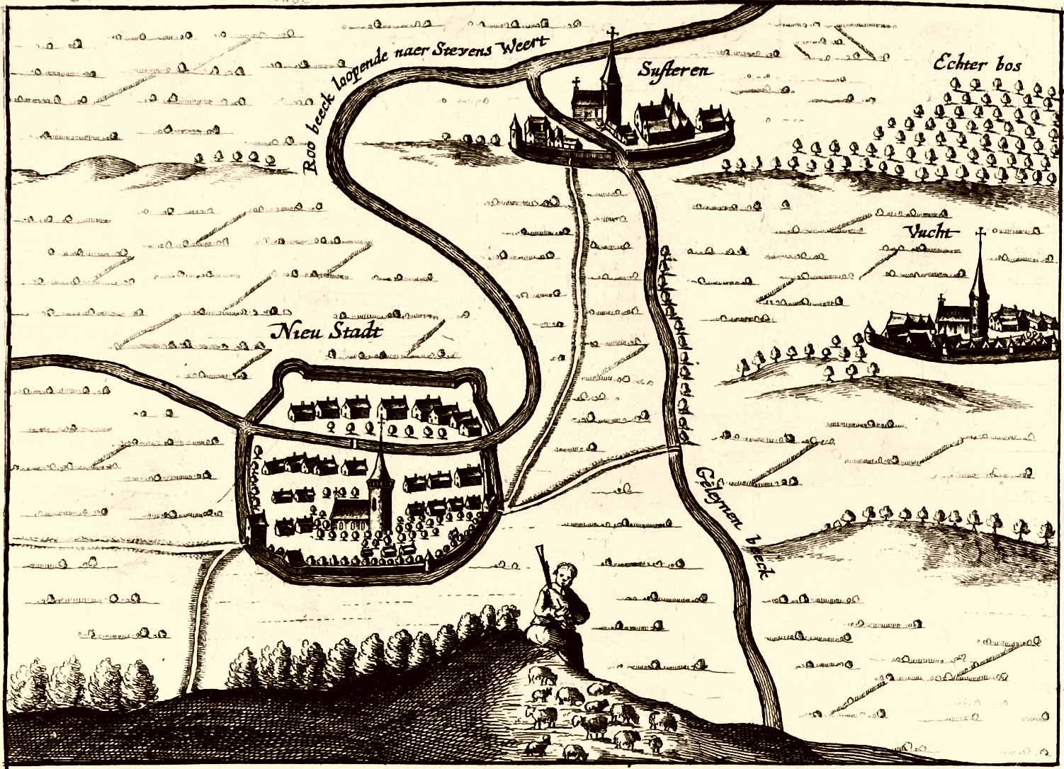 Nieuwstadt, Susteren, Vucht on a bigger map called "Plattegrond van Montfoort, samen op een blad met Nieuw stadt, Straelen, en Geldern'